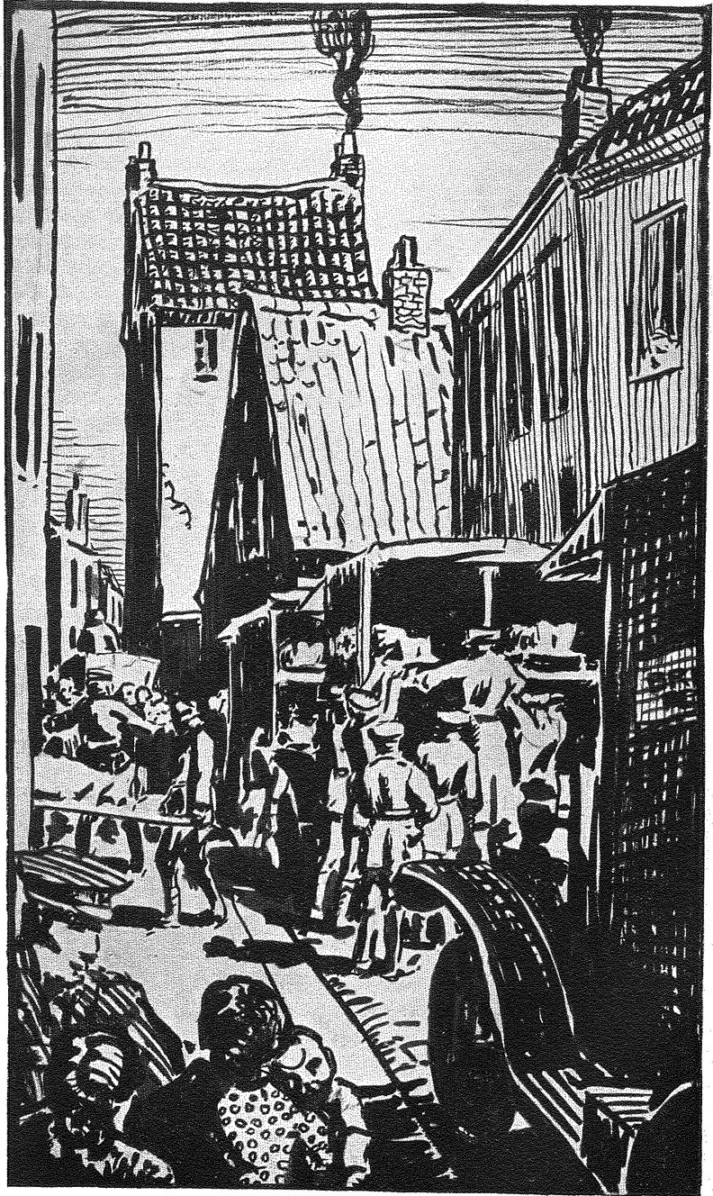 From the book : Miles, James E., Tatham, Meaburn : The Friends' Ambulance Unit, 1914-1919: a record, Swarthmore Press, London, 1919. « XI : Civilian Hospital Evacuation, Bethune ».